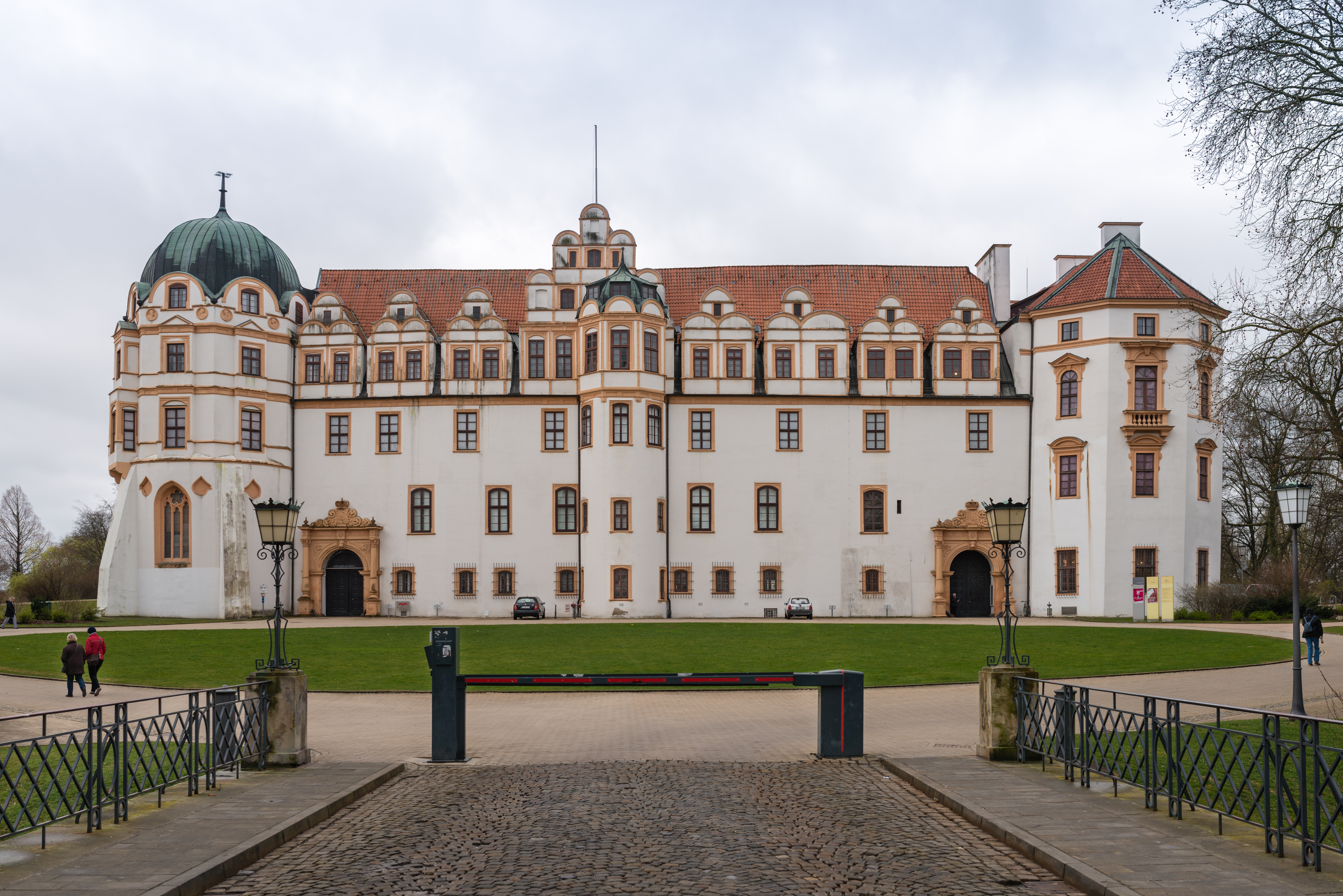 Celle castle, Germany.